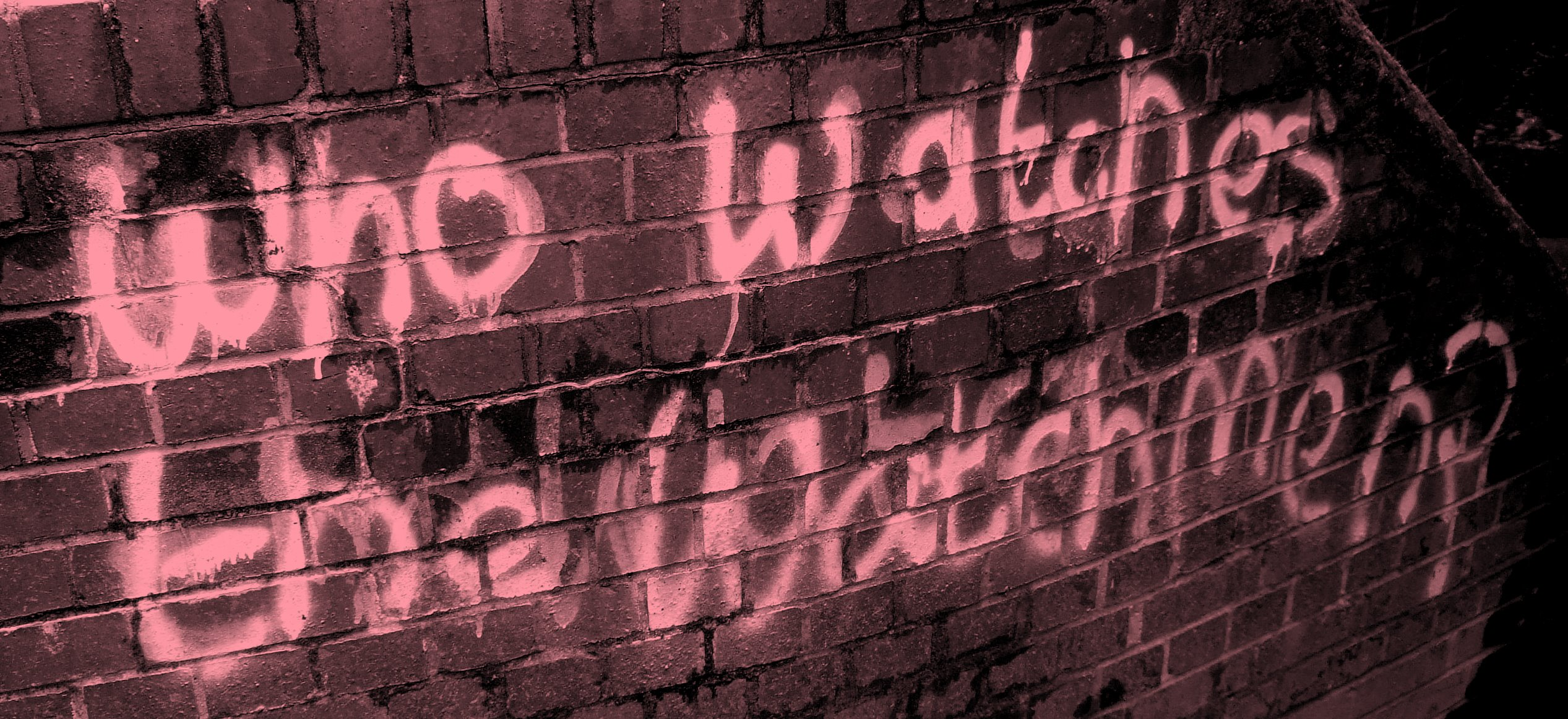 A graffiti similar to those who appear on the comic book series Watchmen